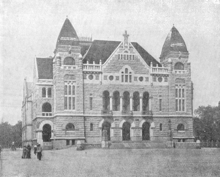 The Finnish National Theater